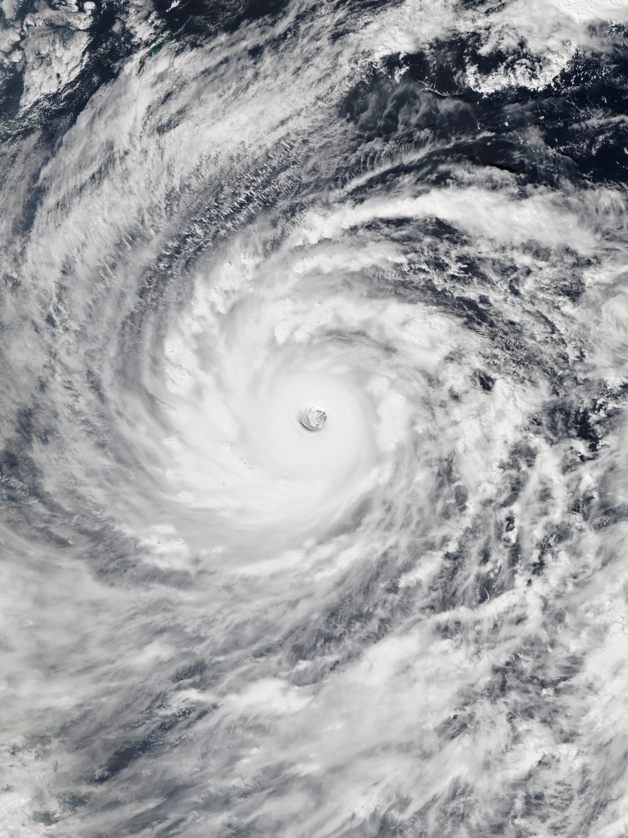 The Visible Infrared Imaging Radiometer Suite (VIIRS) sensor on Suomi-NPP captured this image of Typhoon Vongfong during peak intensity on October 8, 2014, at 04:10 Universal Time.